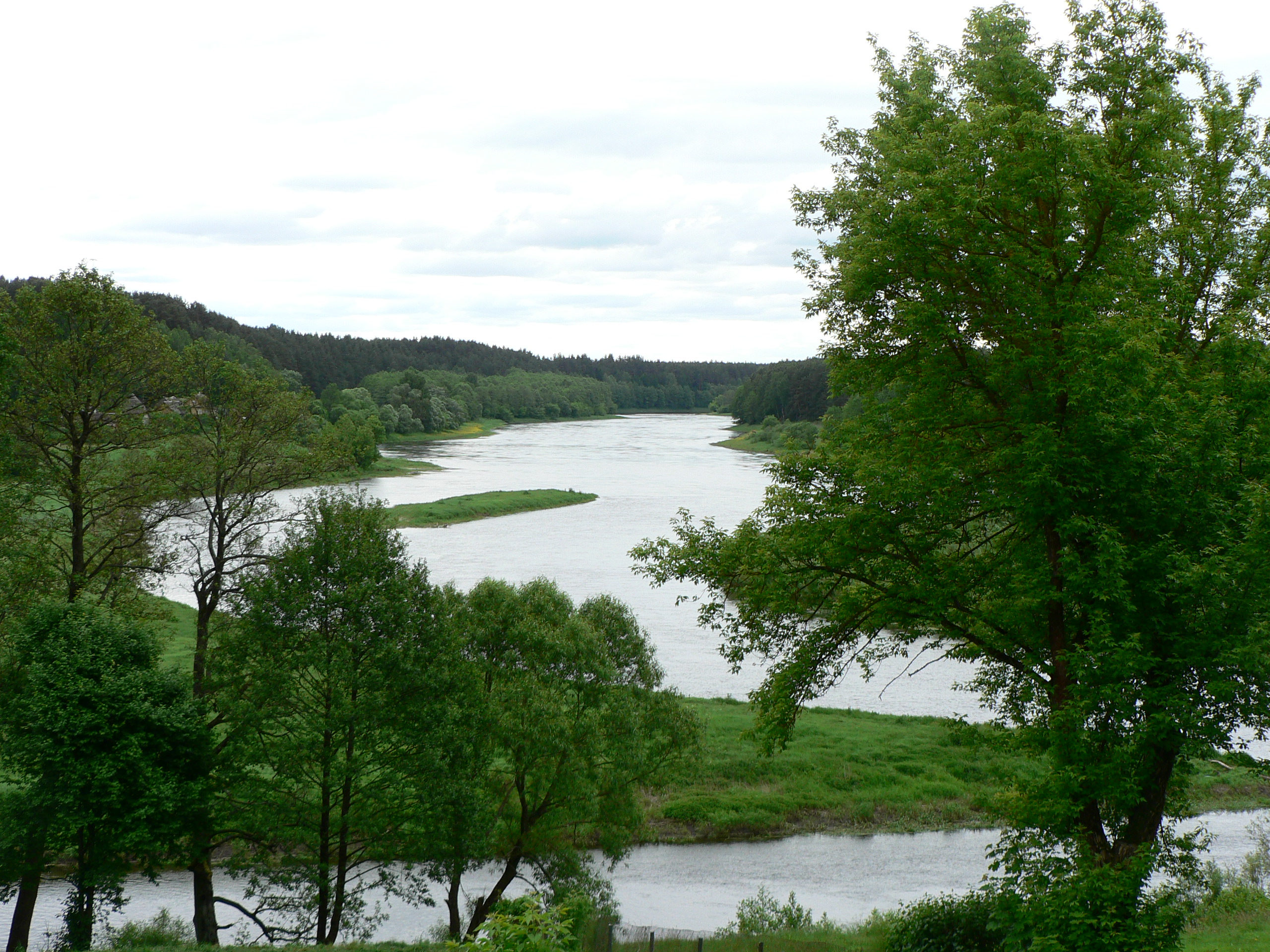 Merkys flowing into Neman in Merkine, Lithuania.